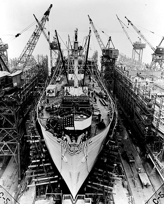 Construction of a Liberty ship at Bethlehem-Fairfield Shipyards Inc., Baltimore, Maryland (USA) in March/April 1943.Original caption: “On the twenty-fourth day the ship is ready for launching. The christening platform is in place.”